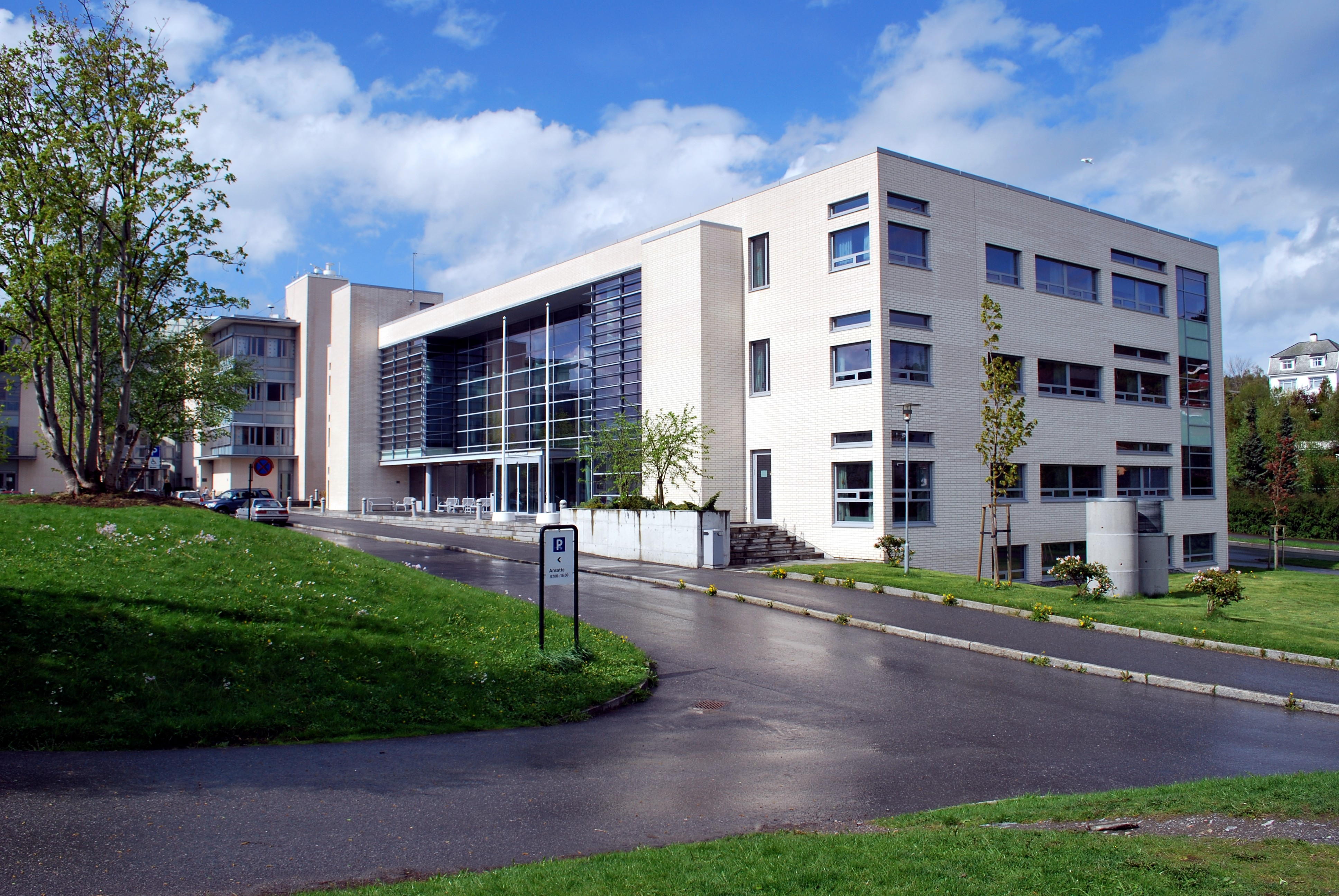 Høgskolen i Ålesund, Ålesund University College.